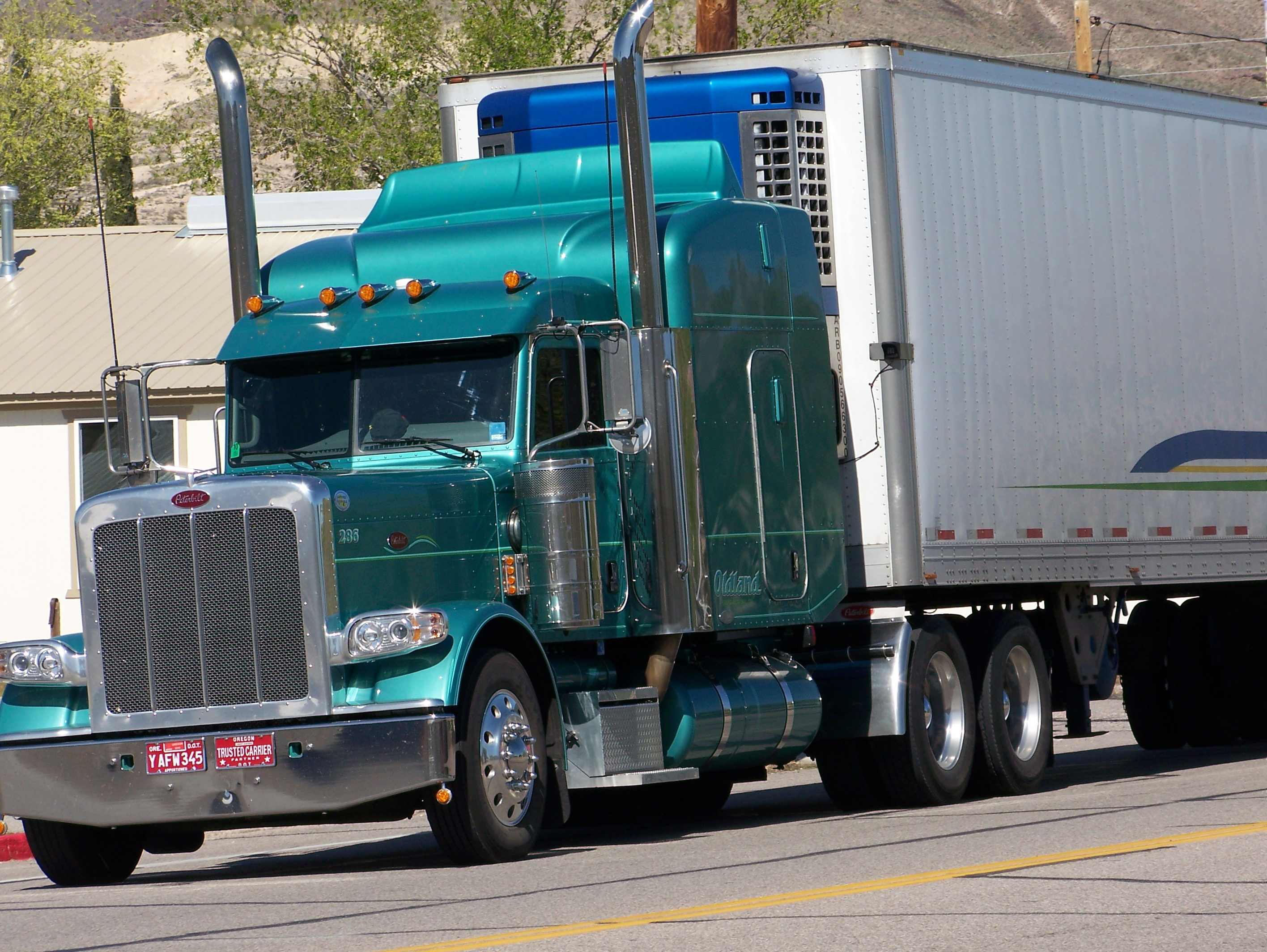 Beautiful truck! Seen in Beatty, Nevada